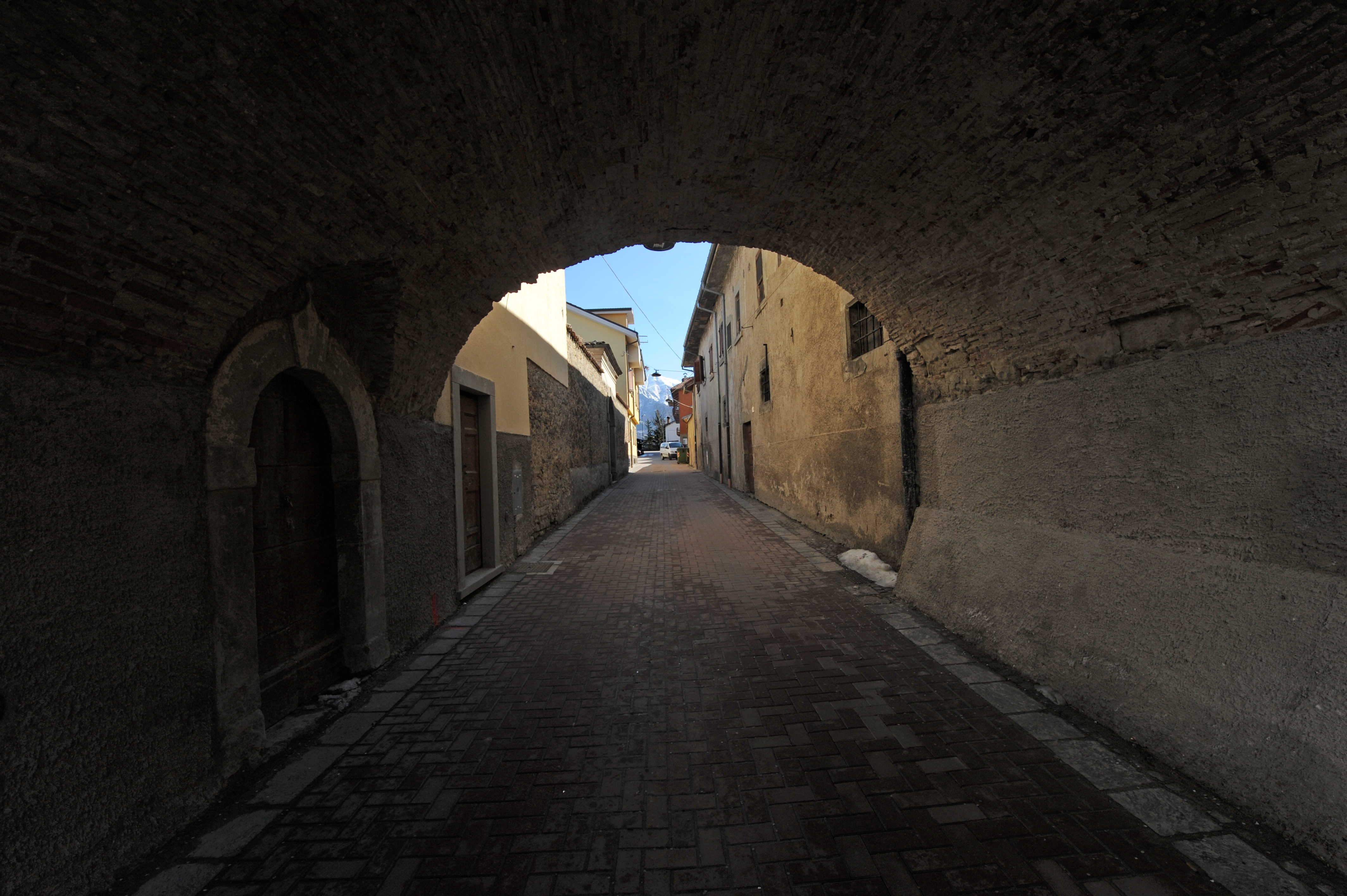 Amatrice